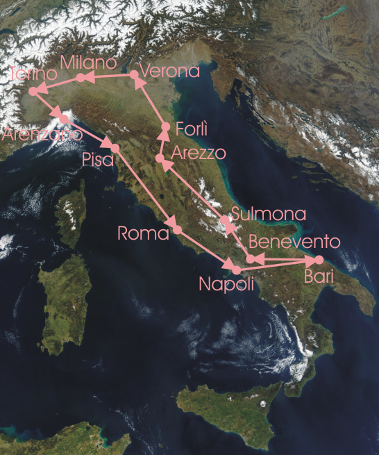 Map of Italy highlighting the stages of 1925 Giro d'Italia